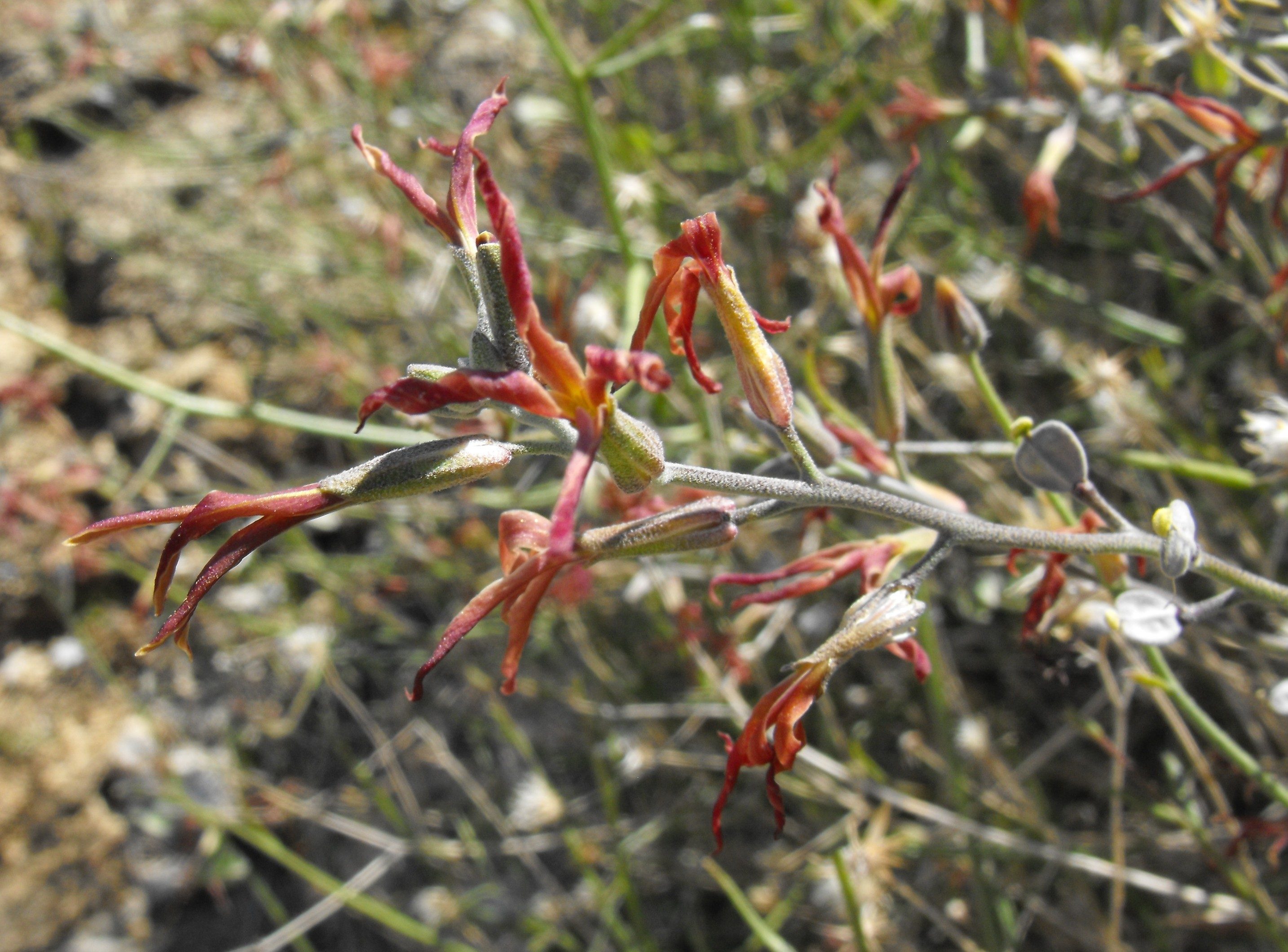 Lyrocarpa coulteri var. palmeri in Anza Borrego Desert State Park, California, USA.